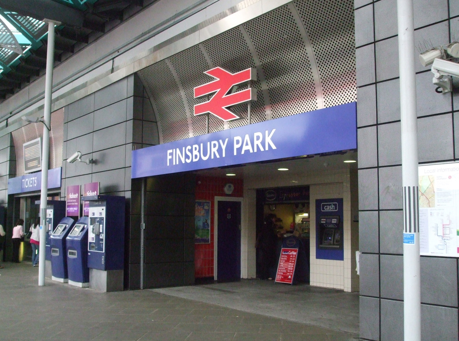 Finsbury Park railway station entrance on Station Place. Tube station entrance is out of shot on the left.